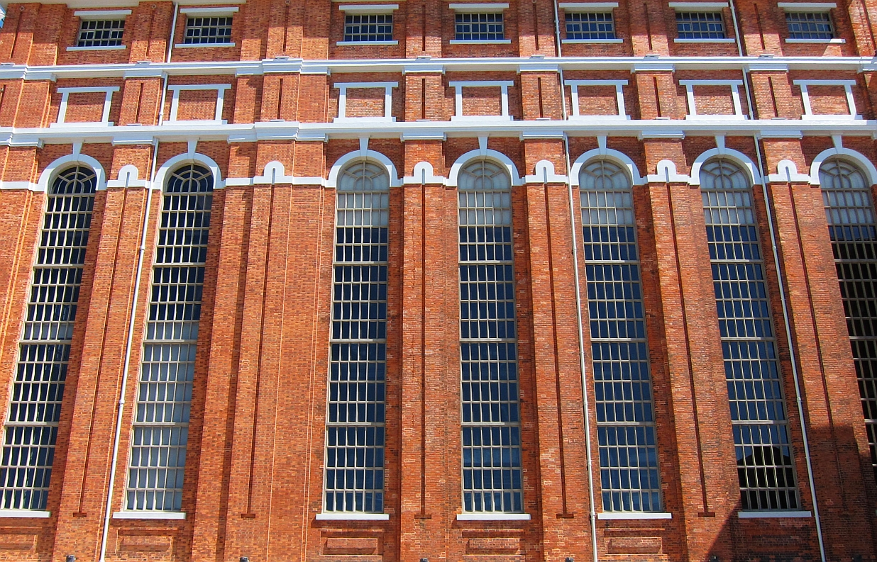 Decommissioned thermoelectric power plant ("Central Tejo"), now converted to an educational museum showing how electricity used to be produced from coal burning and engaging visitors to think about energy sustainability. The museum also has a small art gallery for temporary exhibitions. It consists of several buildings erected at different periods - construction of this one, the largest, started in 1941. It is a wonderful specimen of industrial architecture, not at all out of place in this area of Lisbon, richly endowed with monumental architecture.